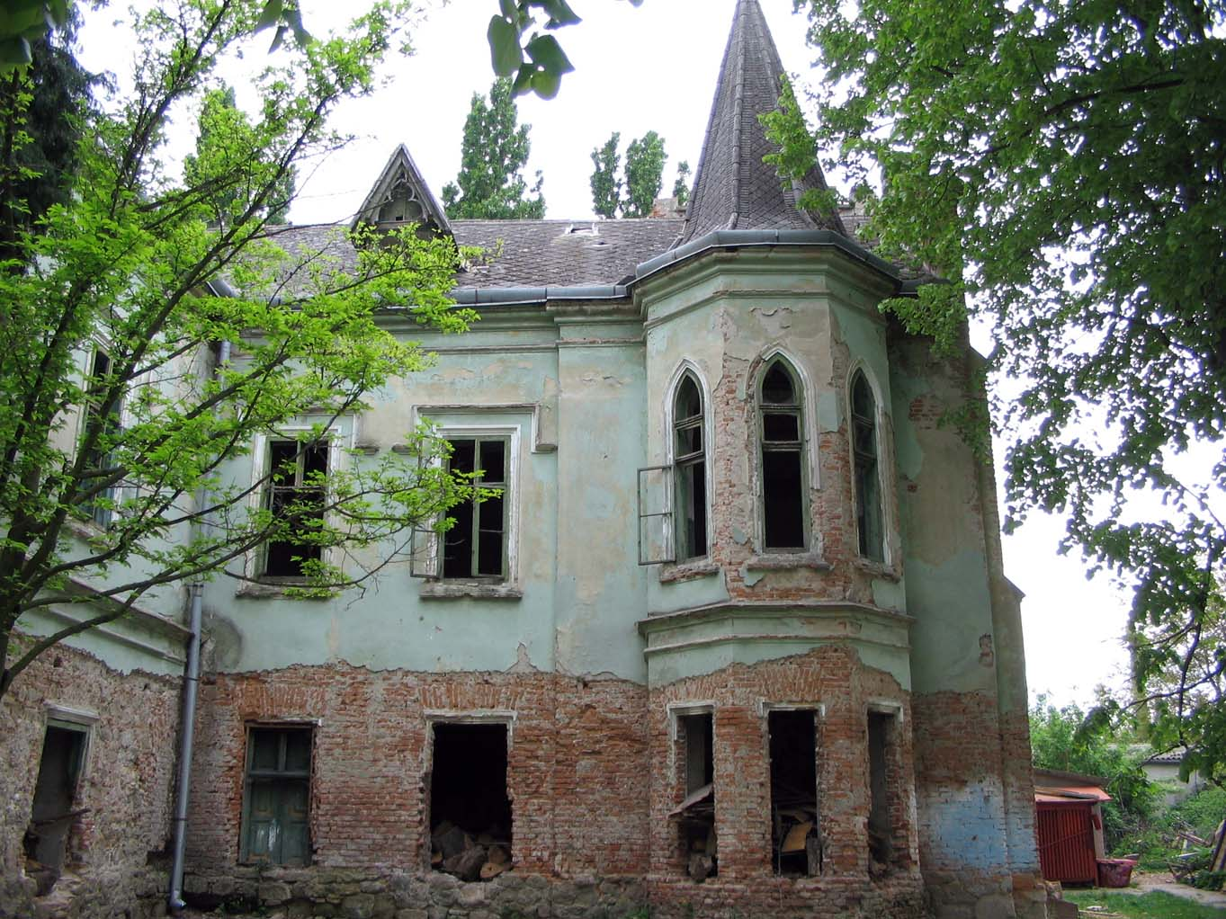 the former mansion of the Nopcsa family in Săcel, Hunedoara County, Romania 01